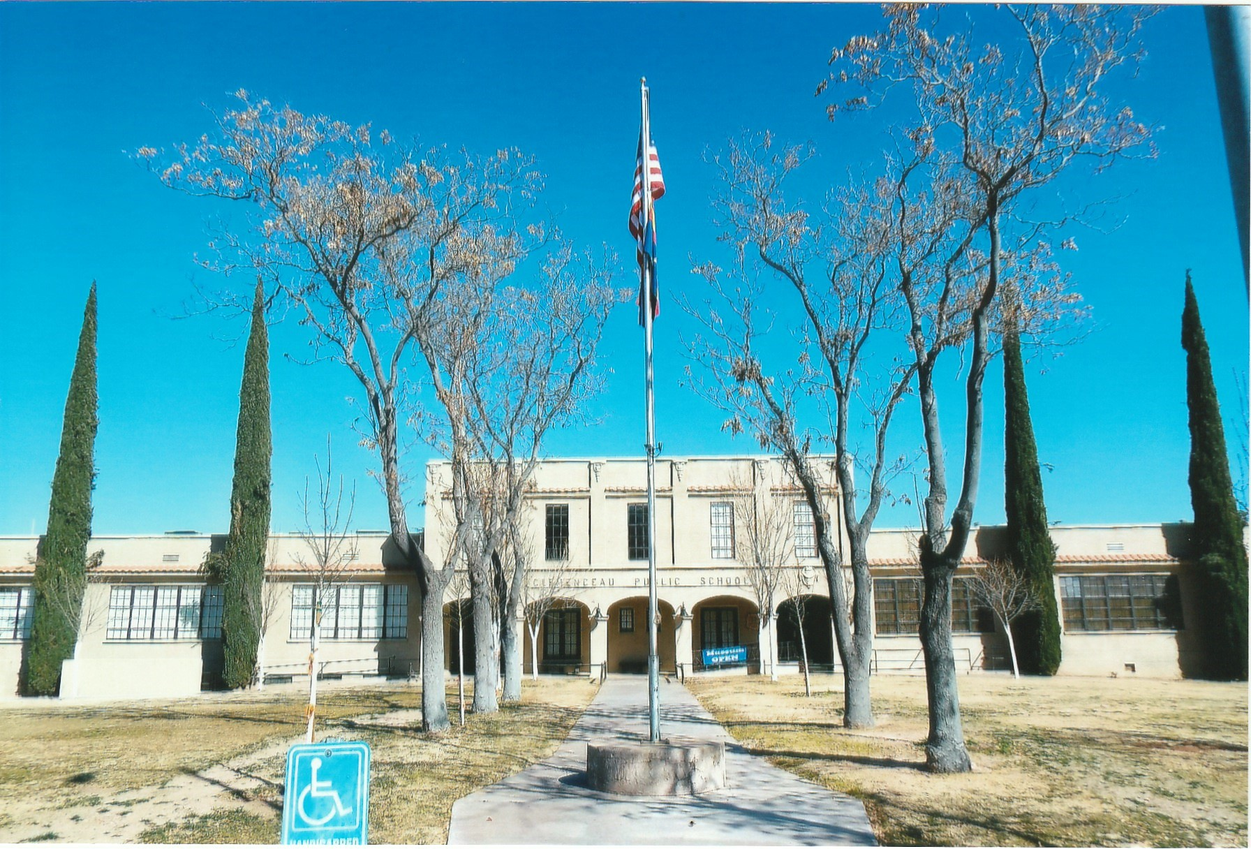 Clemenceau Public School - built in 1923 and located at 1 N. Willard Street. It was listed in the National Register of Historic Places in 1986, reference #86002149.